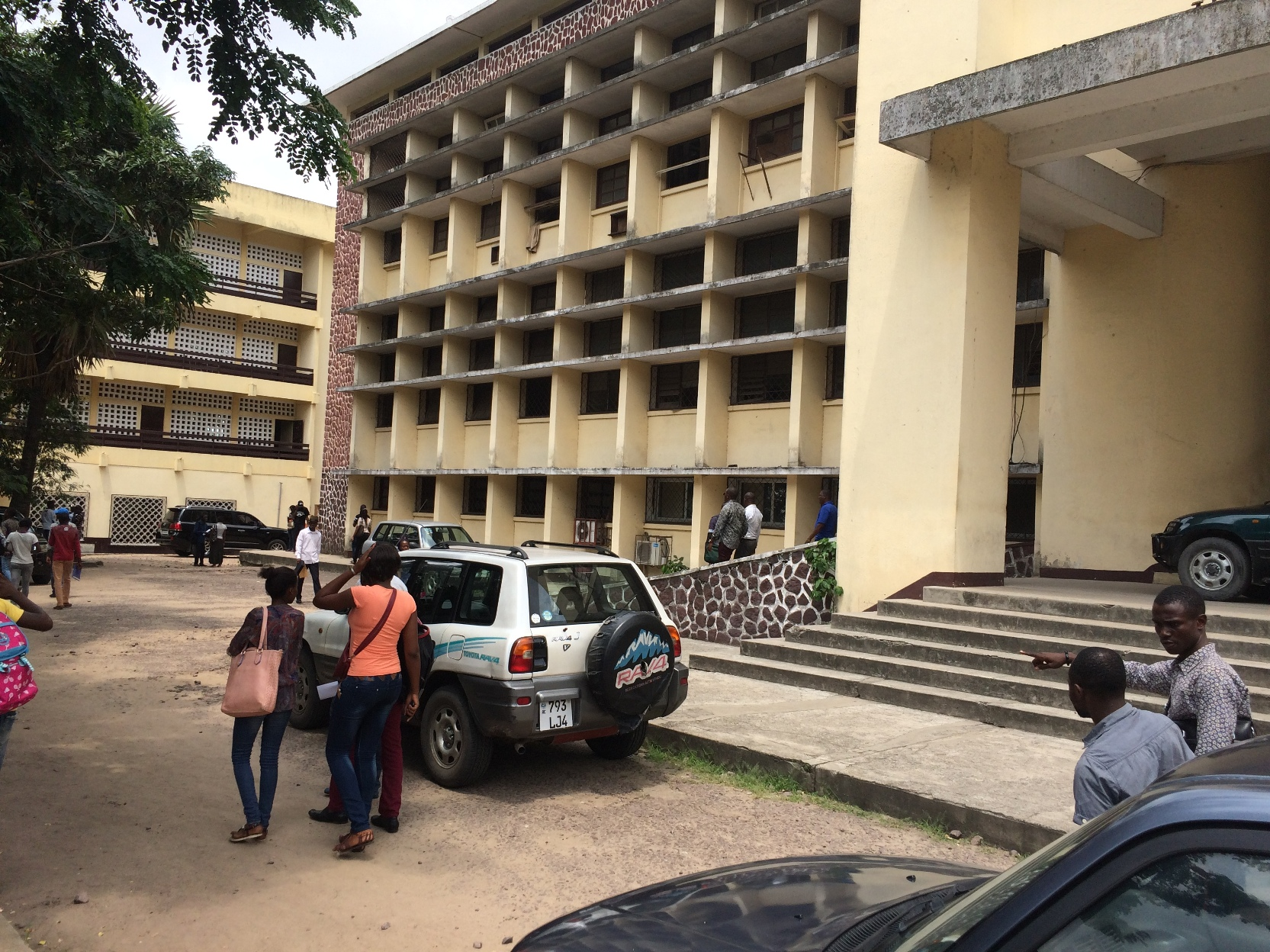 Quelques étudiants devant un bâtiment de l’université Marien Ngouabi à Brazzaville, Congo, 19 janvier 2017. (VOA/Ngouela Ngoussou)